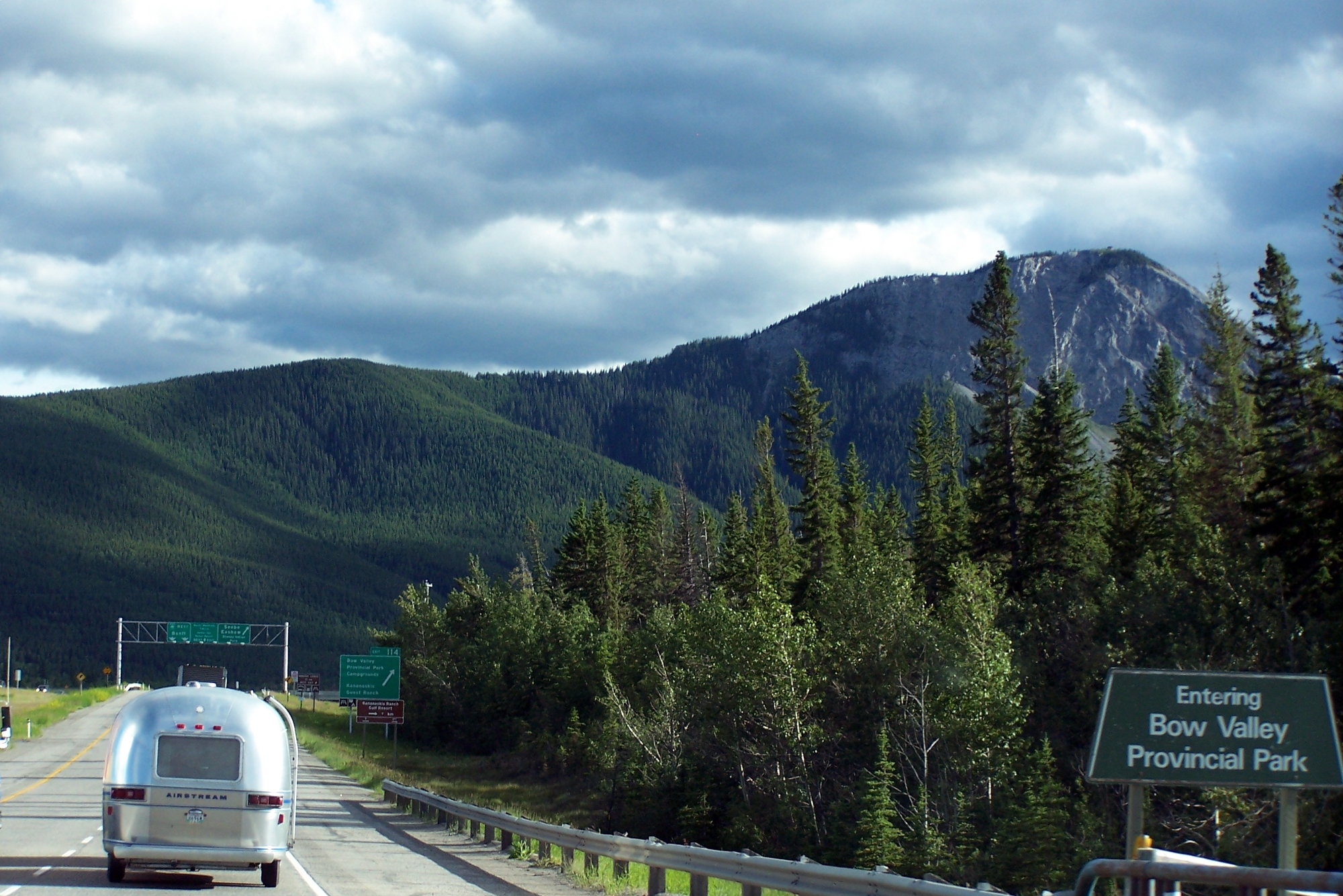 Entering Bow Valley Provincial Park, Alberta, Canada. Taken from car moving at 110 km/h. Note sign in lower right.